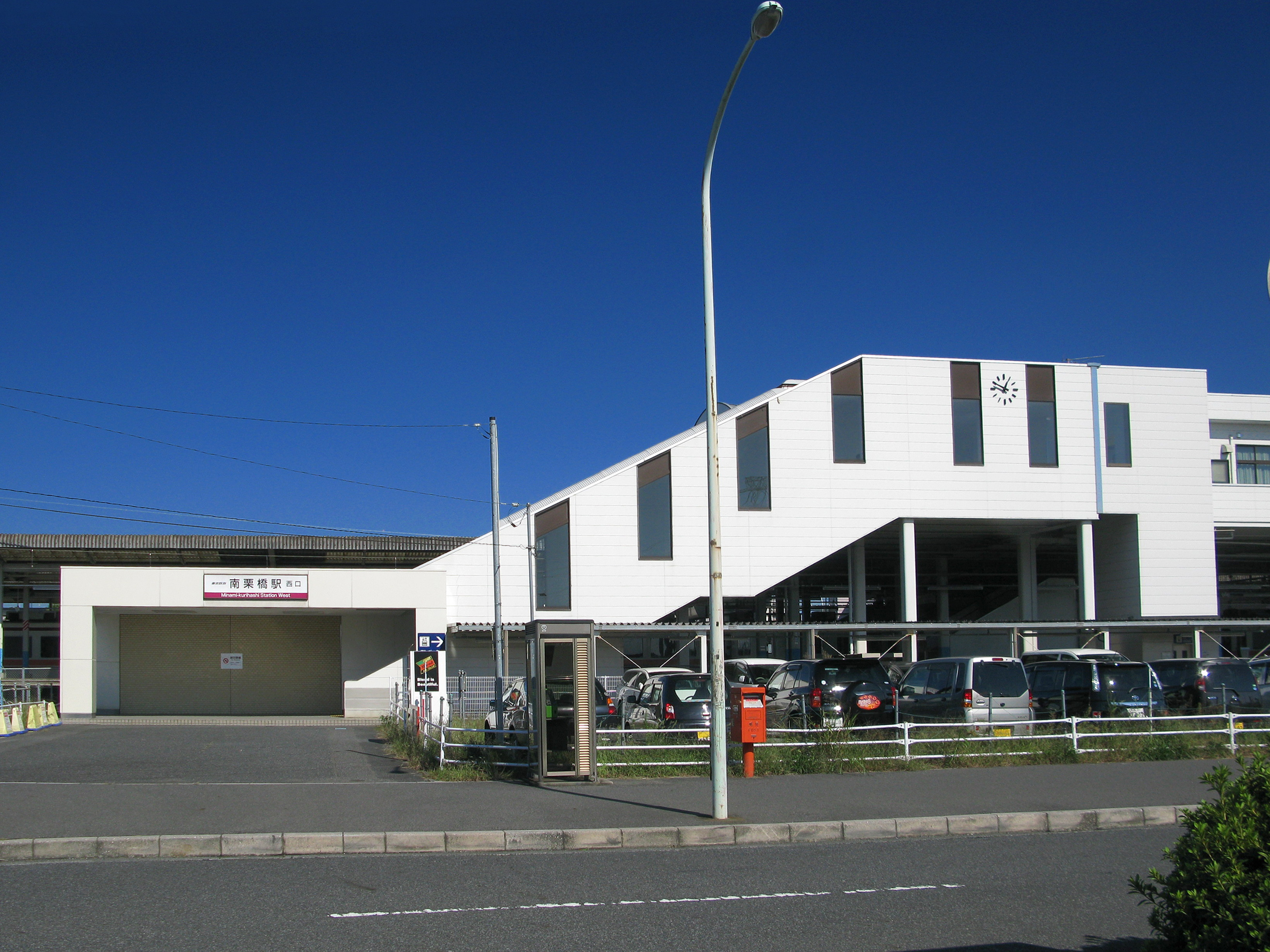 The west entrance to Minami-Kurihashi Station on the Tobu Nikko Line in Saitama Prefecture, Japan